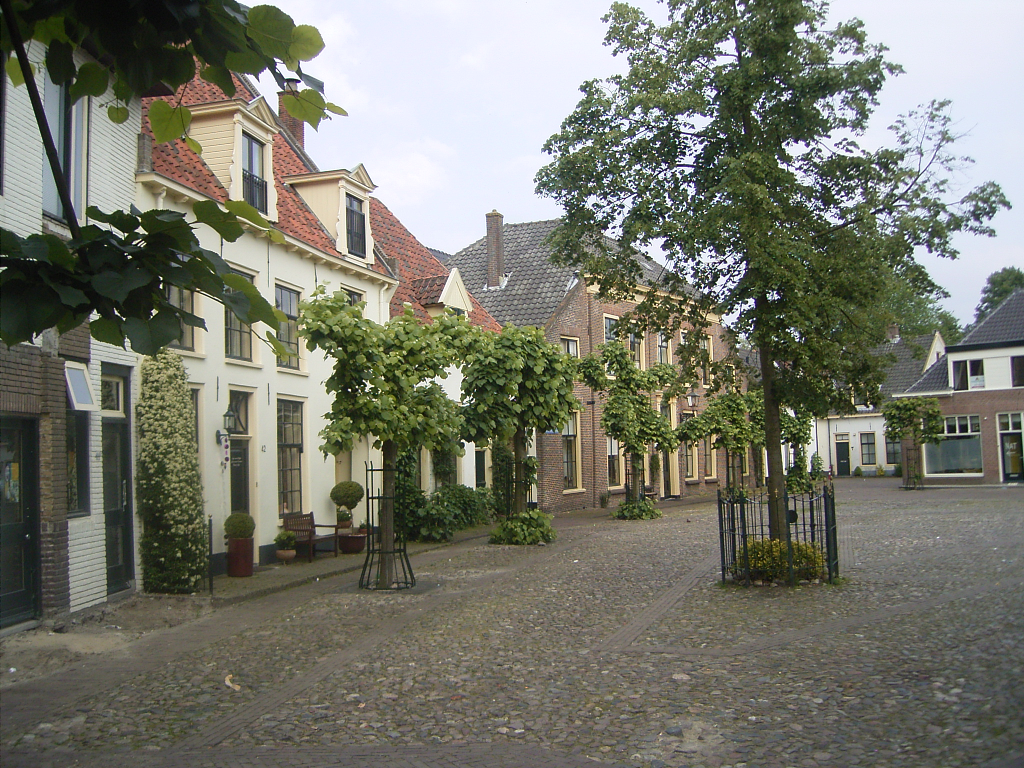 This photo shows a small square in Harderwijk